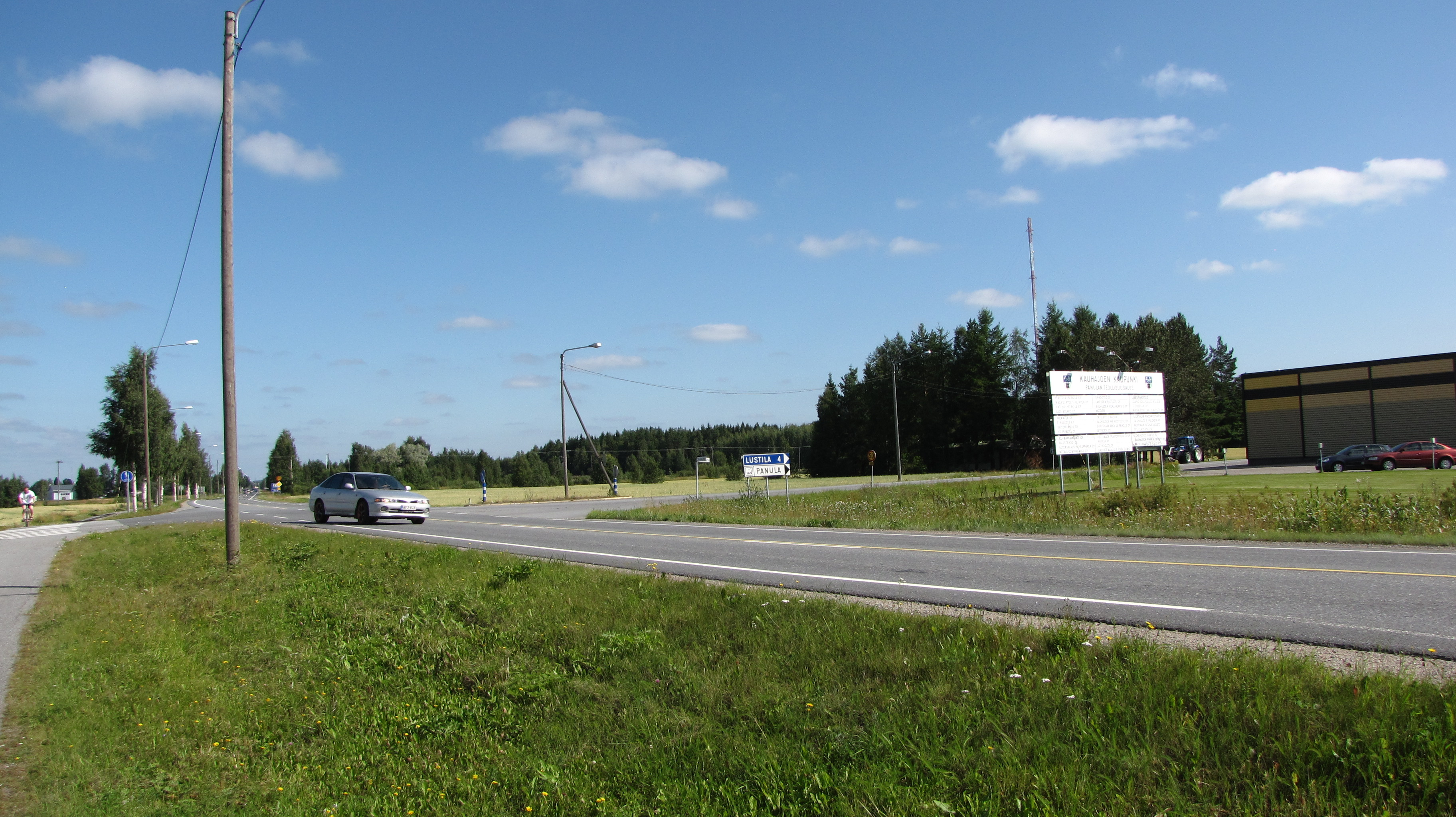 National road 44 in Panula village, Kauhajoki, Finland.